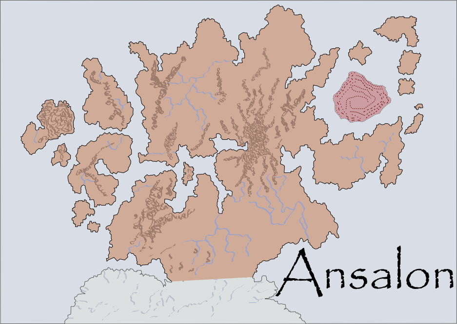 Image made with Image:Ansalon Post Cataclysm.svg image and Inkscape by me Llull 21:30, 26 June 2006 (UTC)